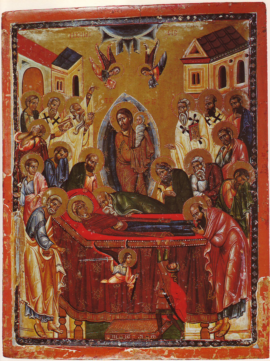 Outlaying of Mary's corpse with mourning saints. Mixture of byzantine and occidental style. Venetian creator? Icon from the second half of the 13th century. 44.4 x 33.4 cm